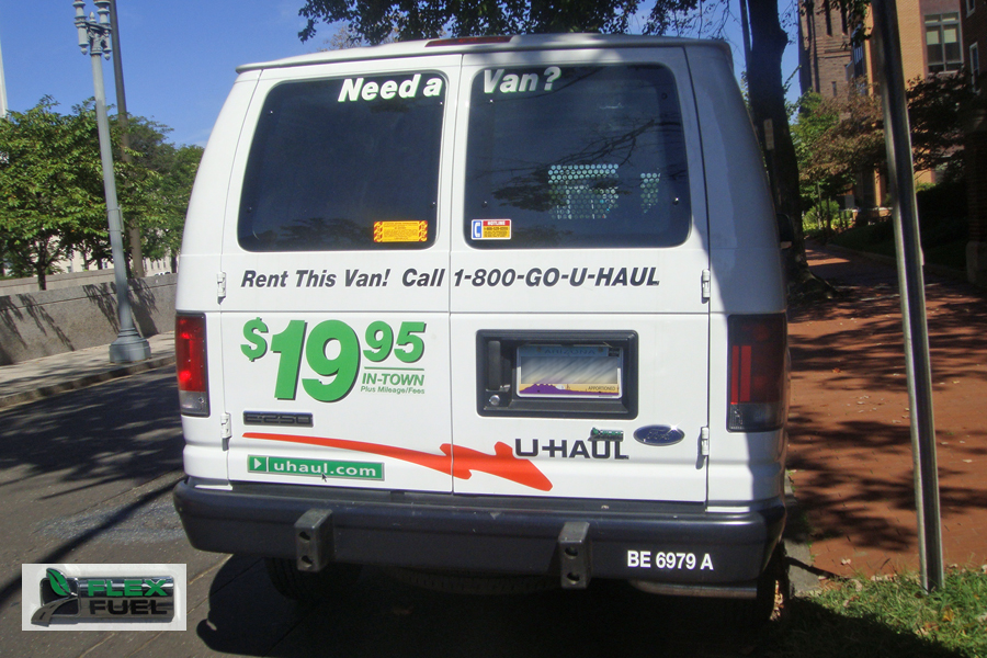 Van Ford E-250 E85 Flex-fuel version, Arizona plates, at Washington, D.C. with inserted zoom in to Ford's flex badging